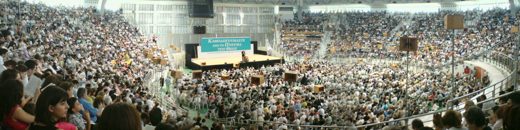 2008-2009 District Convention of Jehovah's Witnesses in the basketball stadium "Palais de Sport"(Nick Galis Hall) of Thessaloniki